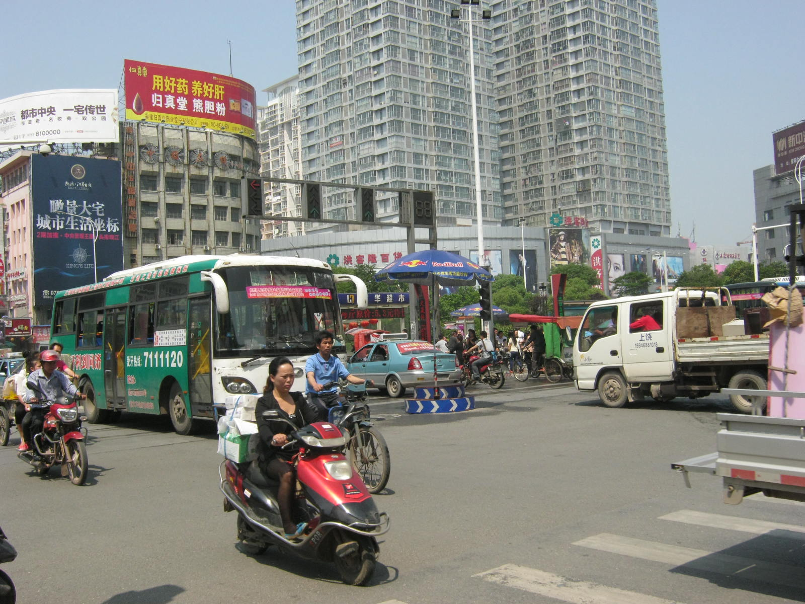 ShangRao (上饶), downtown. JiangXi province.